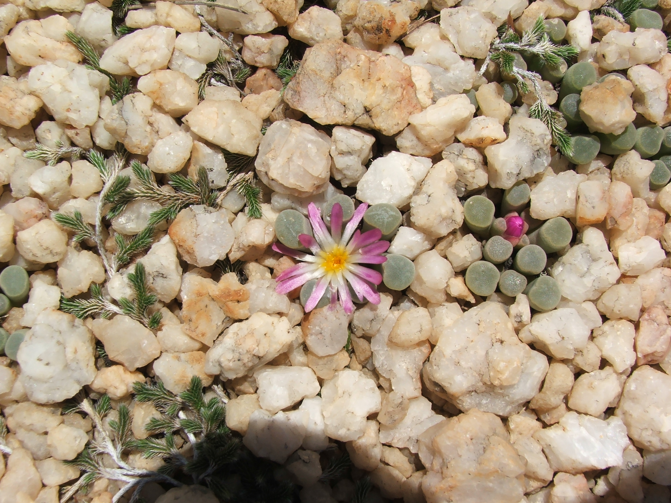 Frithia pulchra growing wild in its natural habitat